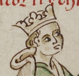 Frederick 2